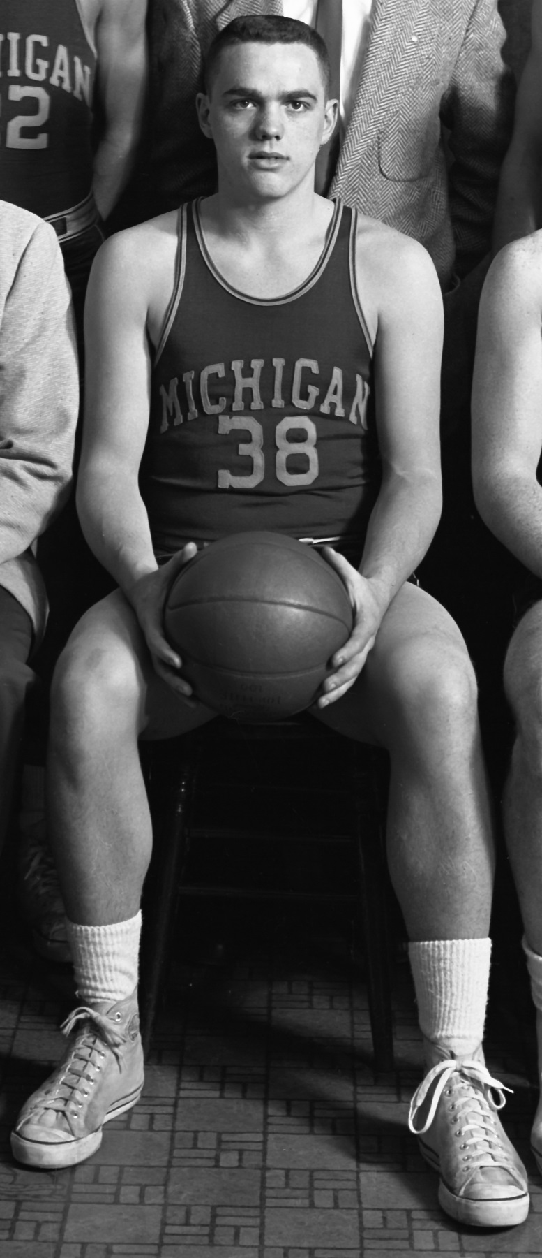 Photograph of Tom Jorgensen. This work is in the public domain because it was published in the United States between 1923 and 1977 and without a copyright notice. Unless its author has been dead for several years, it is copyrighted in jurisdictions that do not apply the rule of the shorter term for US works, such as Canada (50 p.m.a.), Mainland China (50 p.m.a., not Hong Kong or Macao), Germany (70 p.m.a.), Mexico (100 p.m.a.), Switzerland (70 p.m.a.), and other countries with individual treaties. See this page for further explanation.